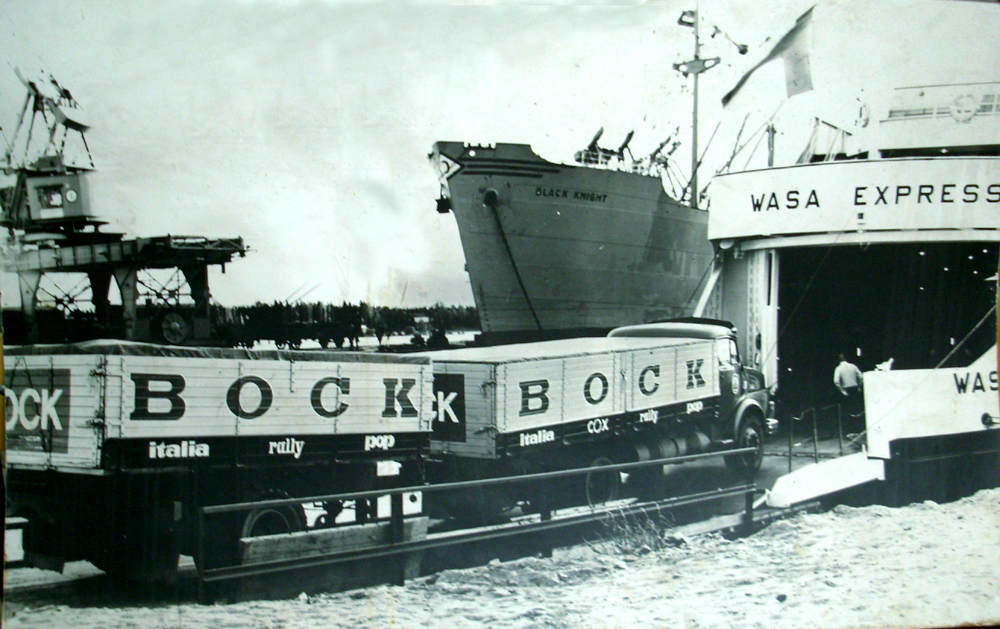 panimo Bockin mersu